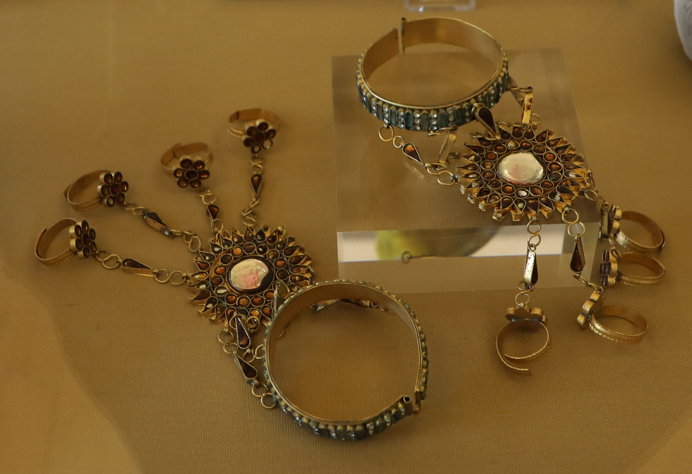 Photo of a Hand flower or slave bracelet dating from the 1920s